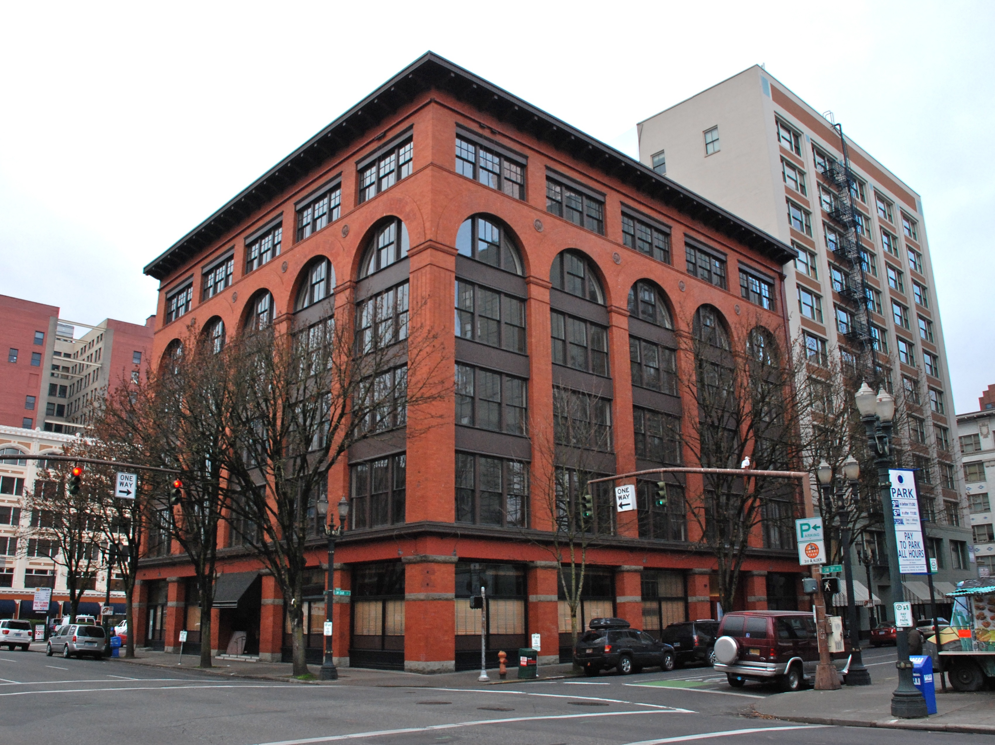 The Sherlock Building (built 1893–94), in Portland, Oregon, is listed on the U.S. National Register of Historic Places. It is located at the southwest corner of the intersection of 3rd & Oak, in downtown.